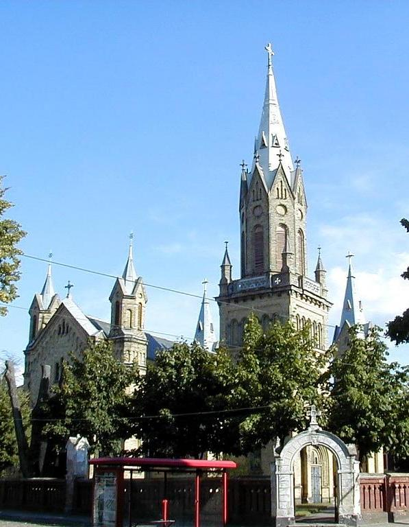 Liepāja Saint Joseph Roman Catholic Cathedral